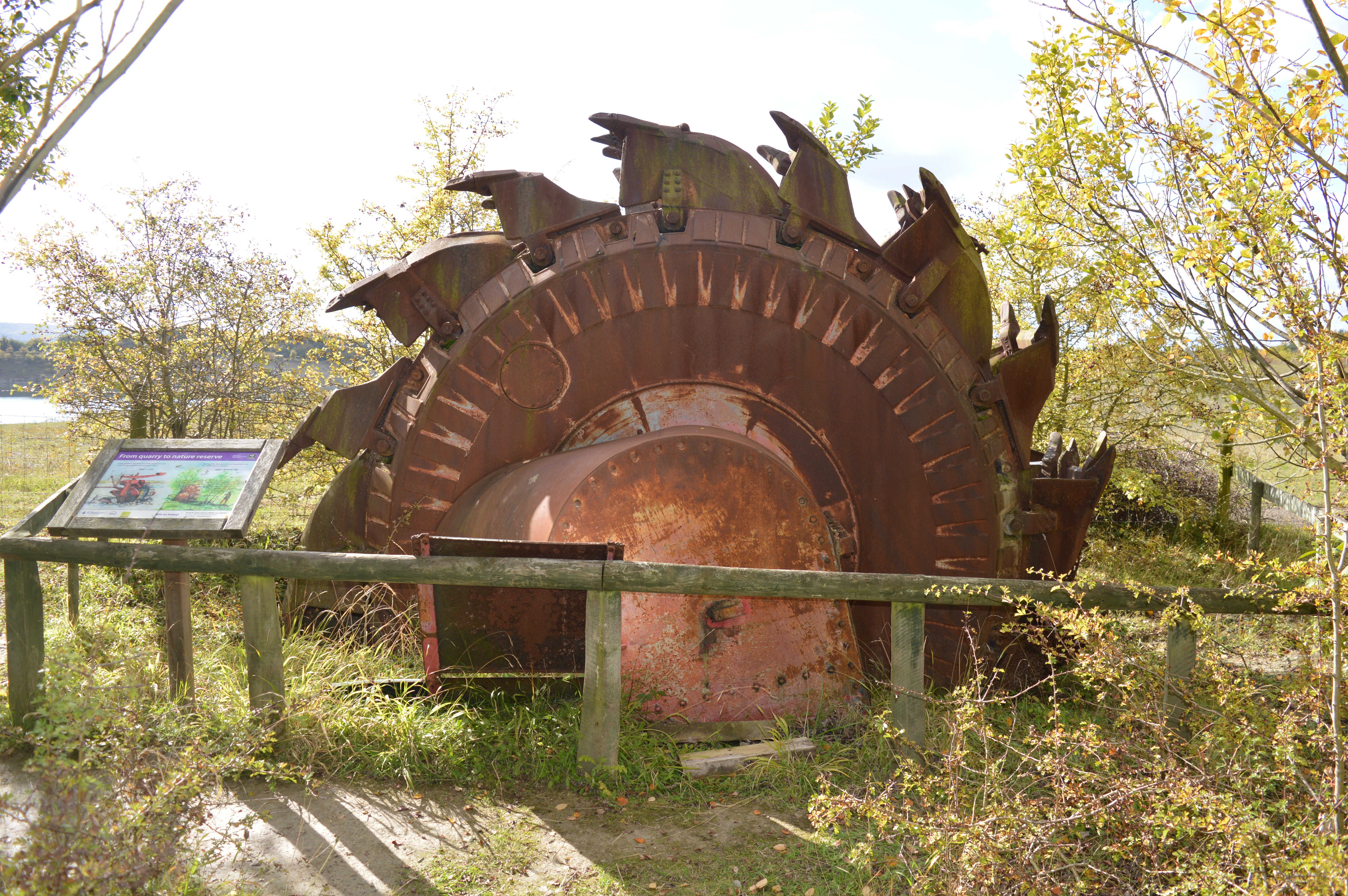 College Lake, a flagship nature reserve of the Berkshire, Buckinghamshire and Oxfordshire Wildlife Trust In Pitstone near Tring in Buckinghamshire. The site was formerly a chalk quarry and this is a surviving chalk cutting machine.